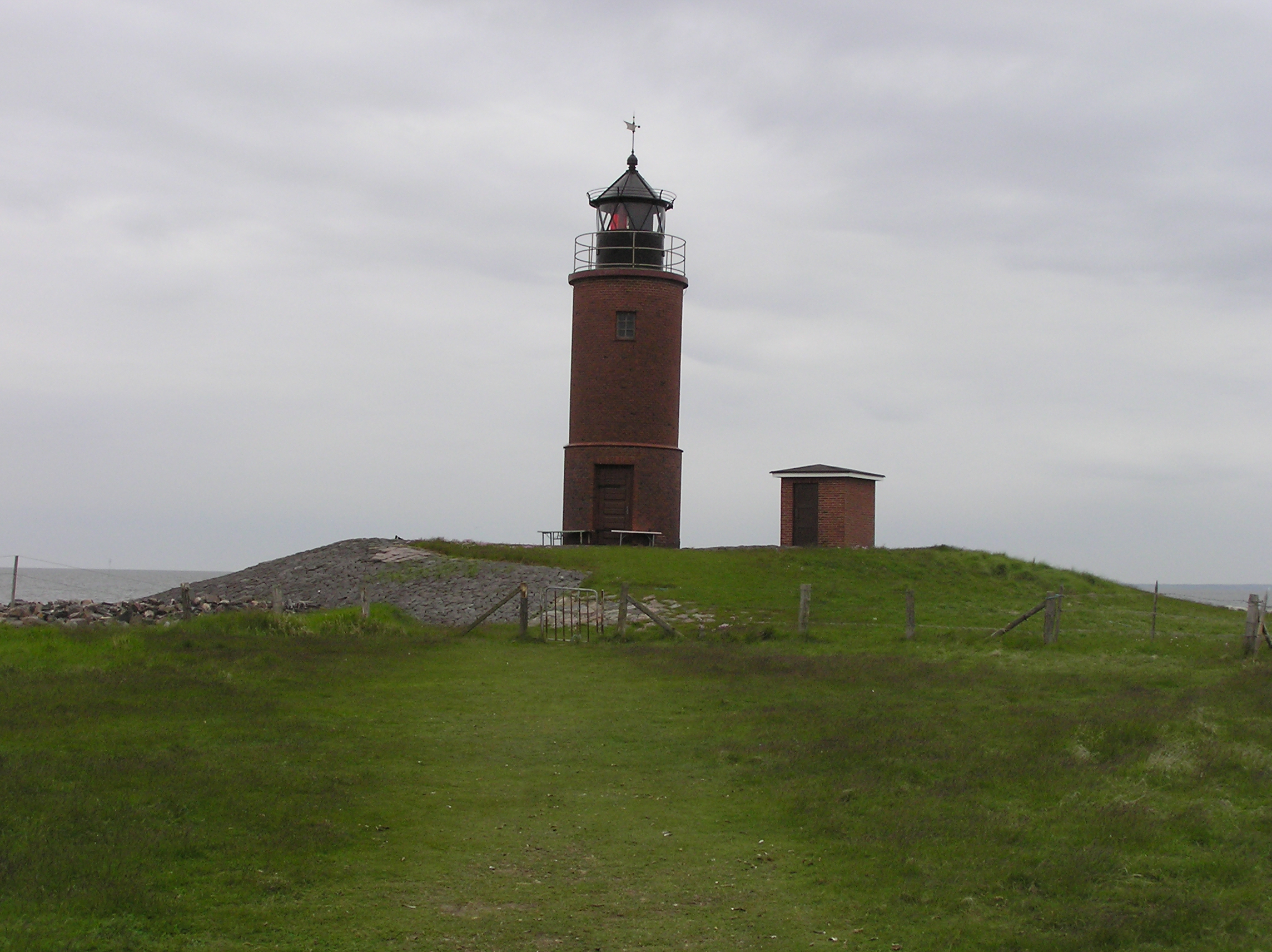 Lighthouse Nordmarsch SH,Germany